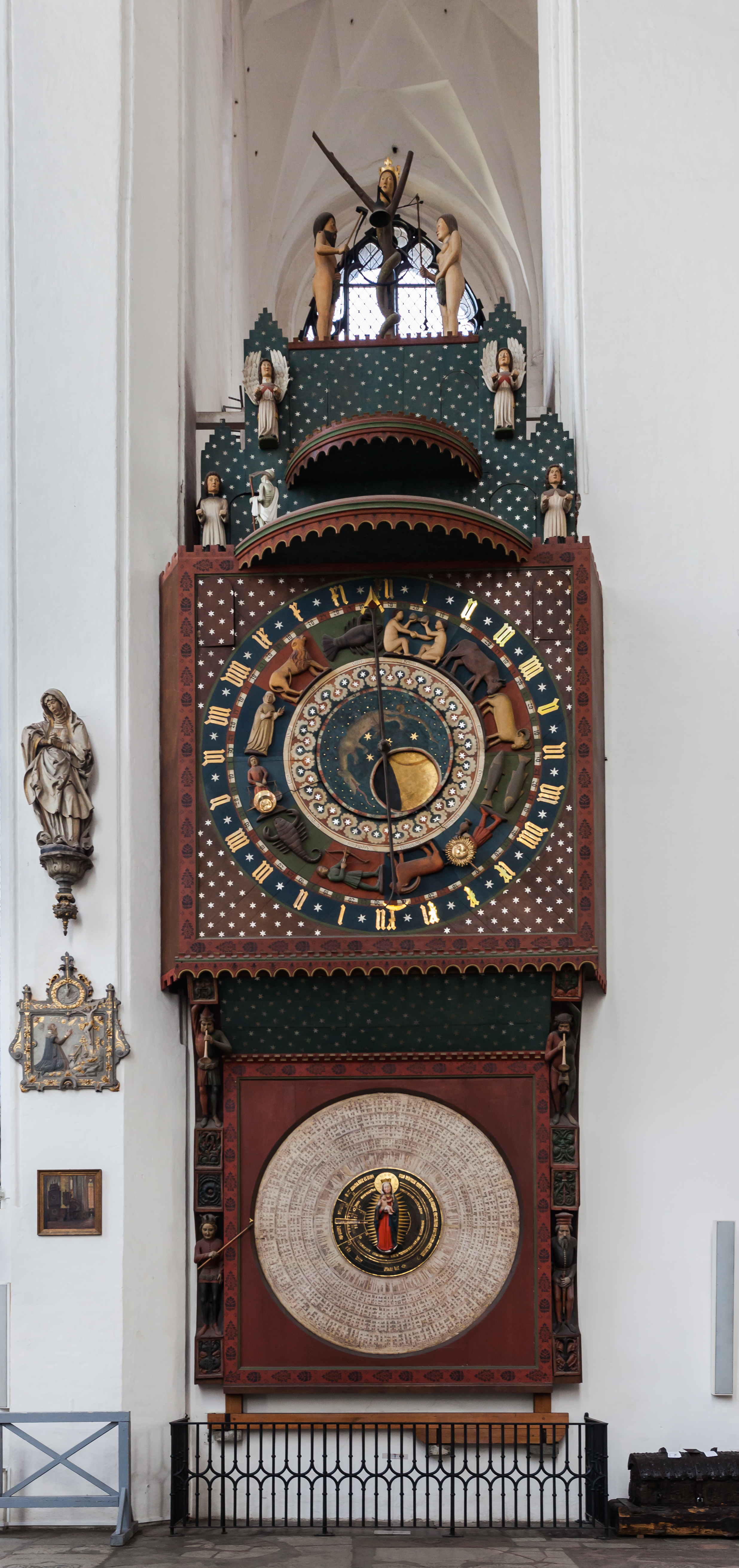 Church of St Mary, Gdansk, Poland